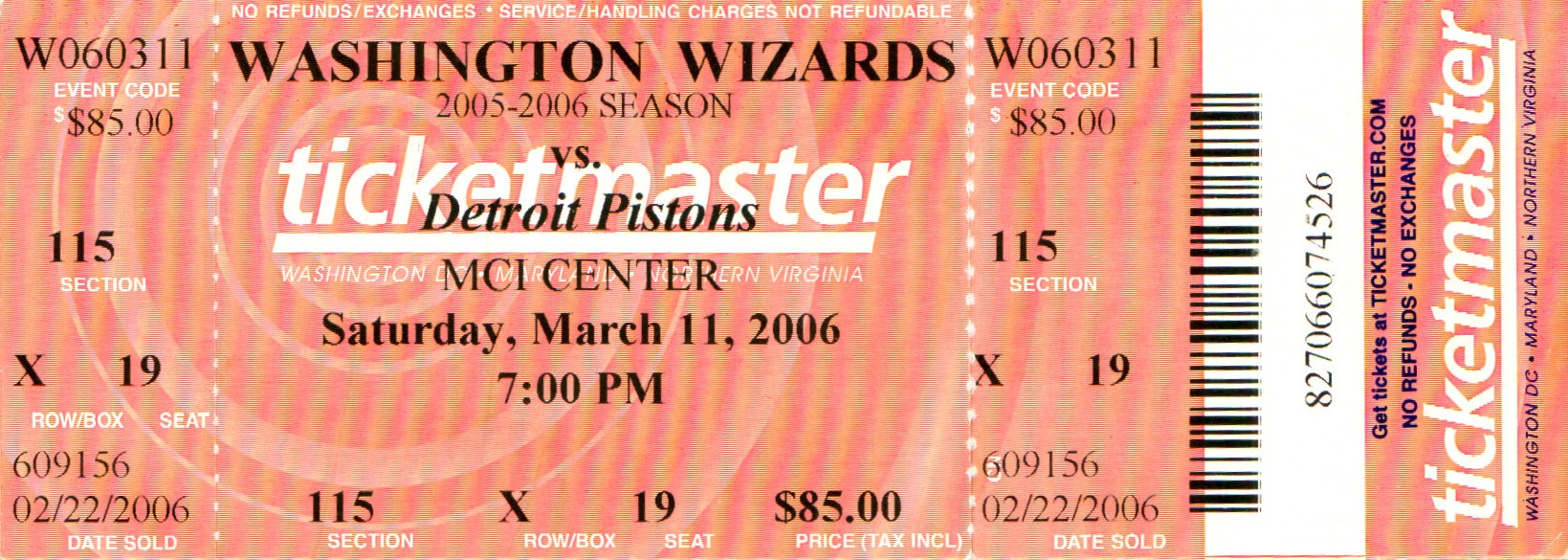 A game ticket to a professional basketball match between the NBA's Detroit Pistons and the Washington Wizards at the MCI Center (now known as the Verizon Center) in Washington, D.C., on March 11, 2006, at 7:00 p.m. EST. The ticket cost $85.00 USD and was sold via TickerMaster on February 22, 2006. The Washington Wizards defeated the Detroit Pistons in the actual game itself. The image of the game ticket itself was scanned with a Canon MP450-series printer in July 2010. This file is ineligible for copyright, and thus, has been released into the public domain.